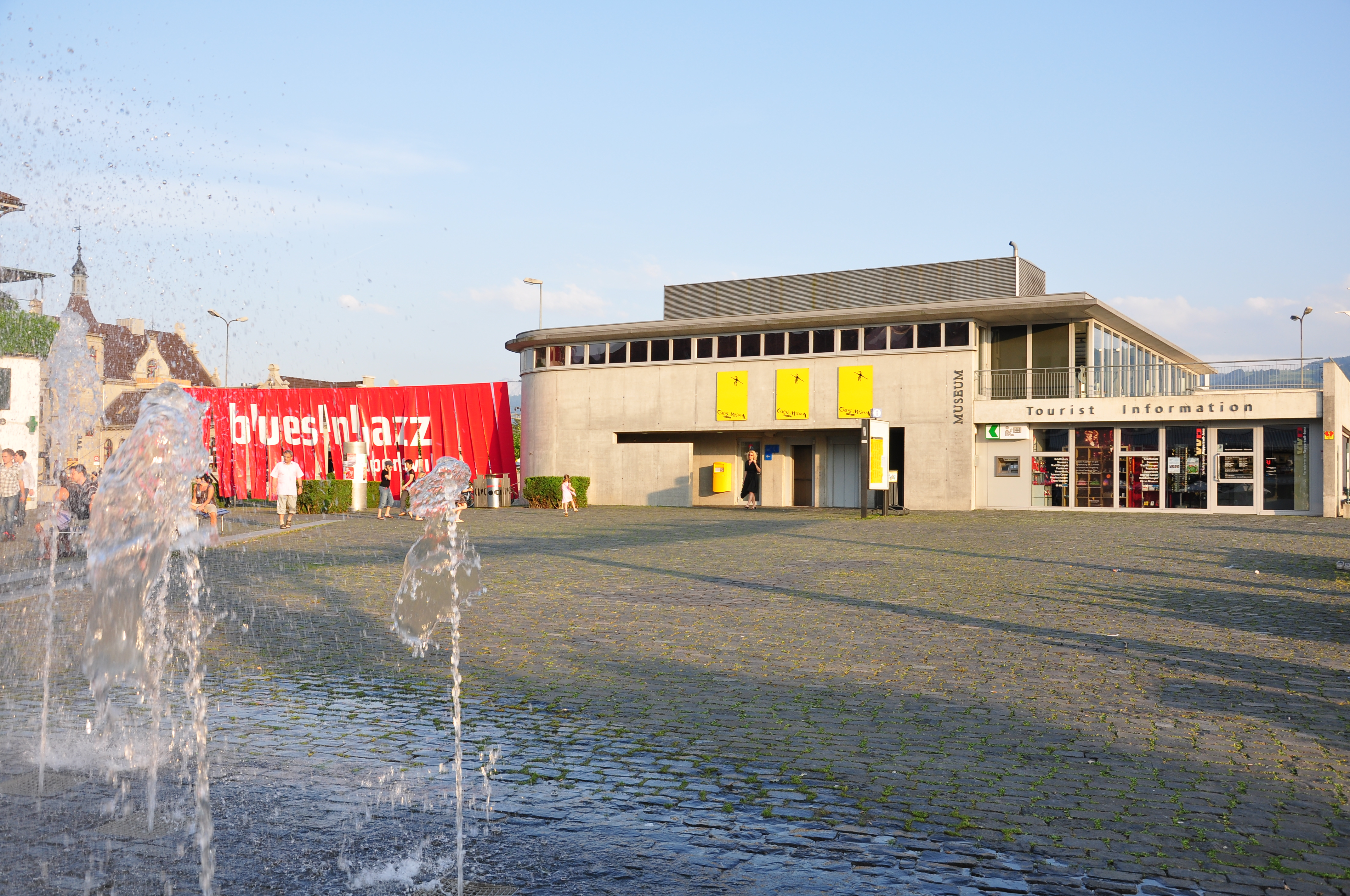 Rapperswil (SG) : Fischmarktplatz and Circus Museum at Rapperswil harbour.